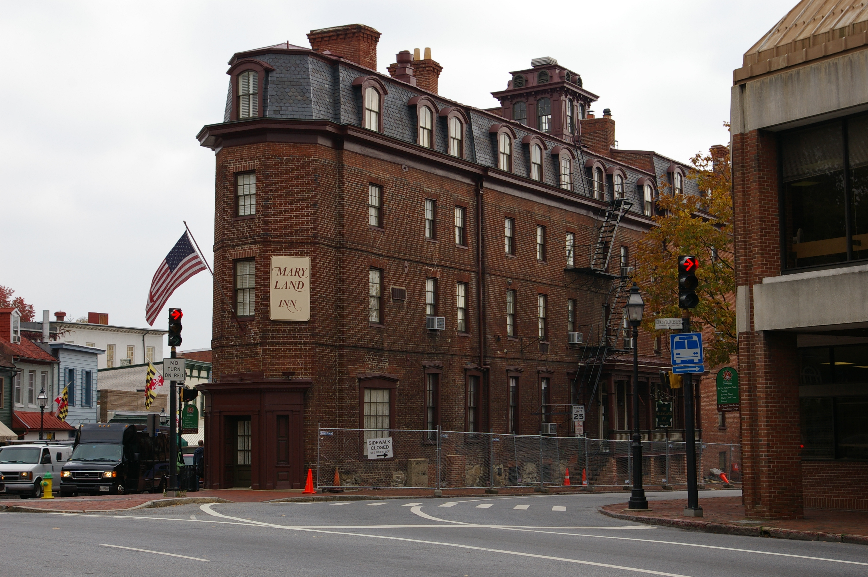 Maryland Inn, Annapolis, MD November, 2007 Photograph by Joy Schoenberger